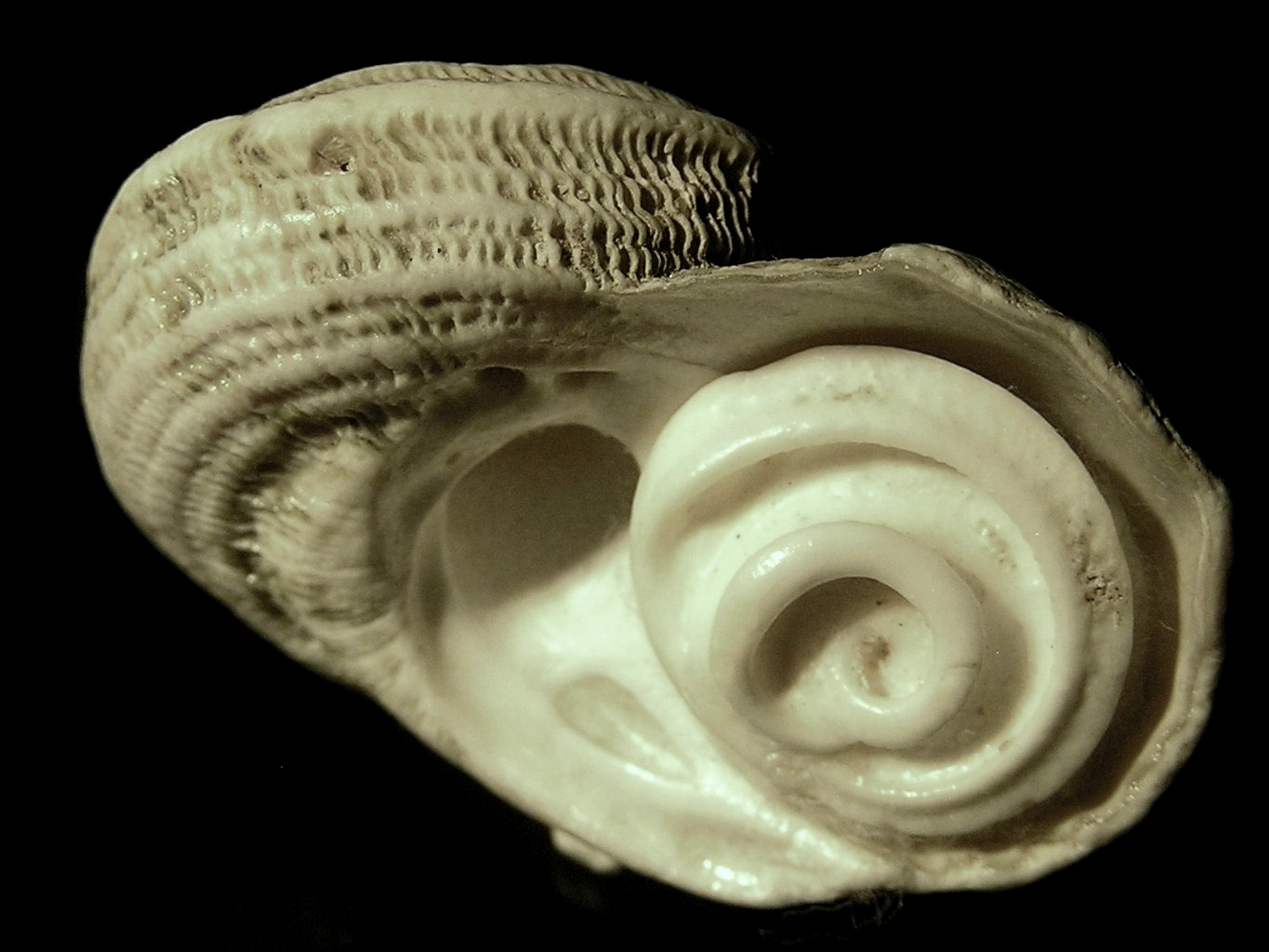 Lunella (Ninella) torquata (Gmelin, 1791) , a turbid snail from the family Turbinidae; Australia